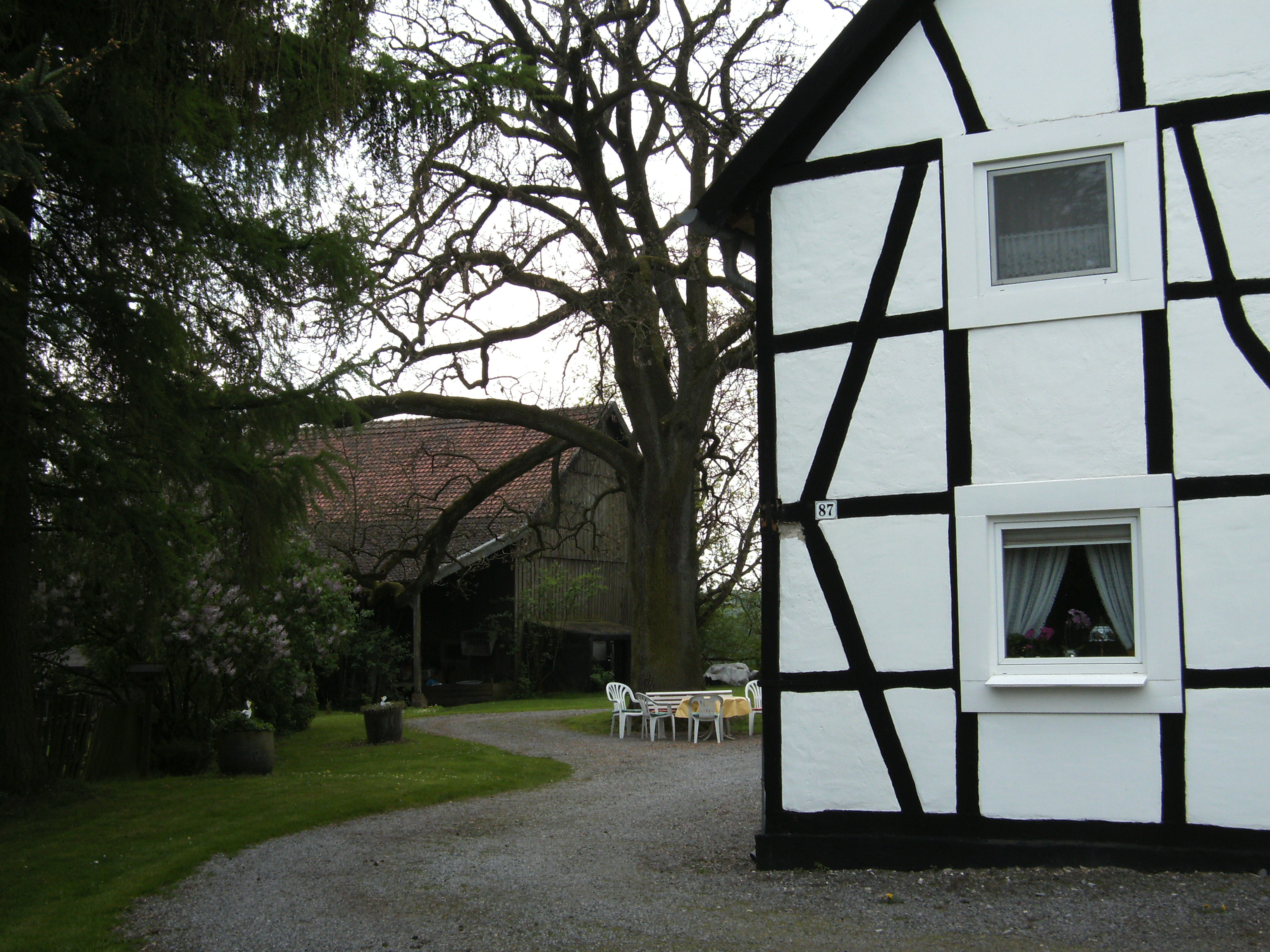 Wuppertal-Mutzberg